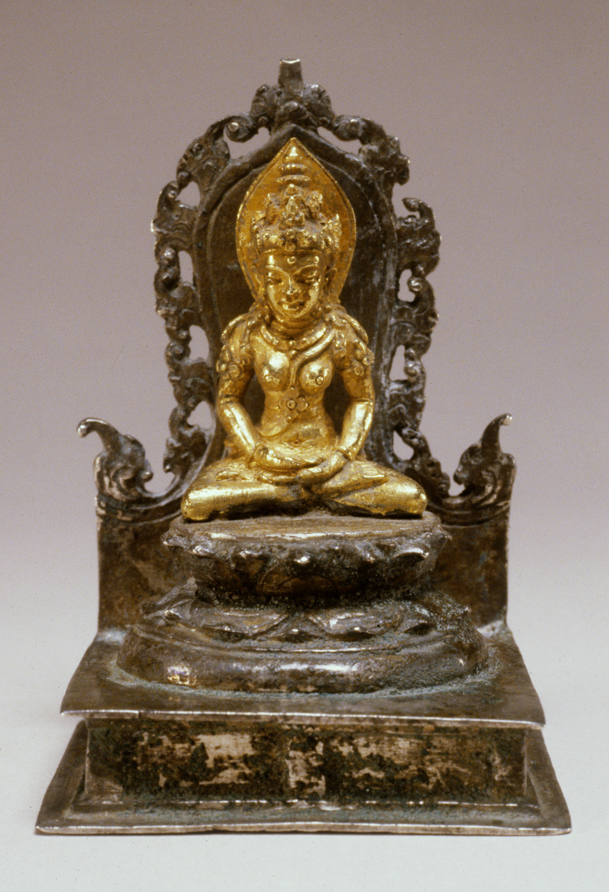 Adopting a sophisticated form of Mahayana ("great vehicle") Buddhism from monastic centers in northern and northeastern India, Javanese Buddhists created images of the Buddha as well as of members of the Buddhist pantheon. Tara helps extend the powers of the Buddha-to-be Avalokiteshvara, but she is frequently worshiped as an independent deity-a savior who helps convey the rays of Avalokiteshvara's compassion to the suffering beings of this world.